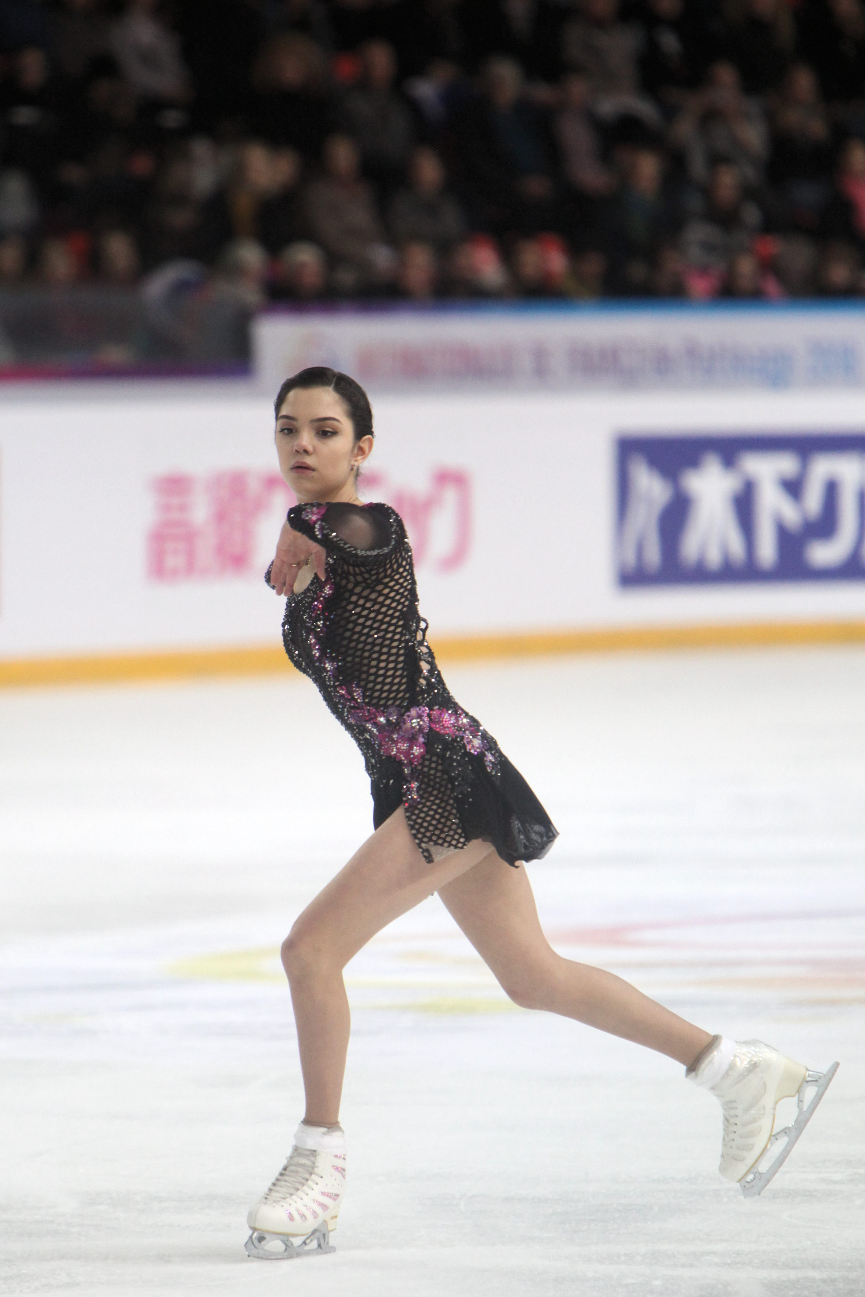 Evgenia Medvedeva during the Ladies Free Skating at the Internationaux de France de Patinage 2018.